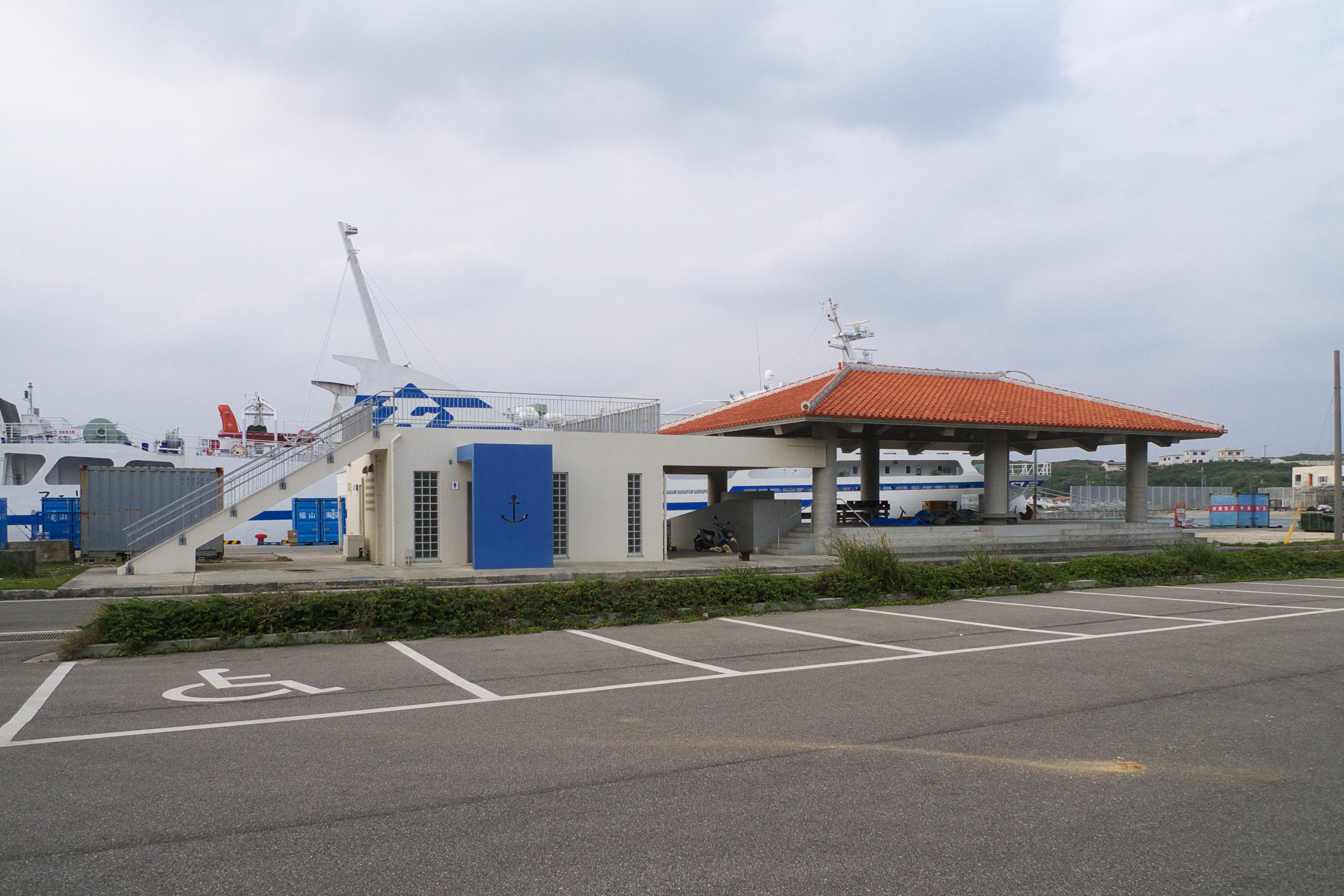 Passenger terminal at the Port of Kubura in Yonagunijima, Okinawa Prefecture, Japan